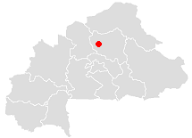 The map shows the location of the town of Kongoussi in Burkina Faso.